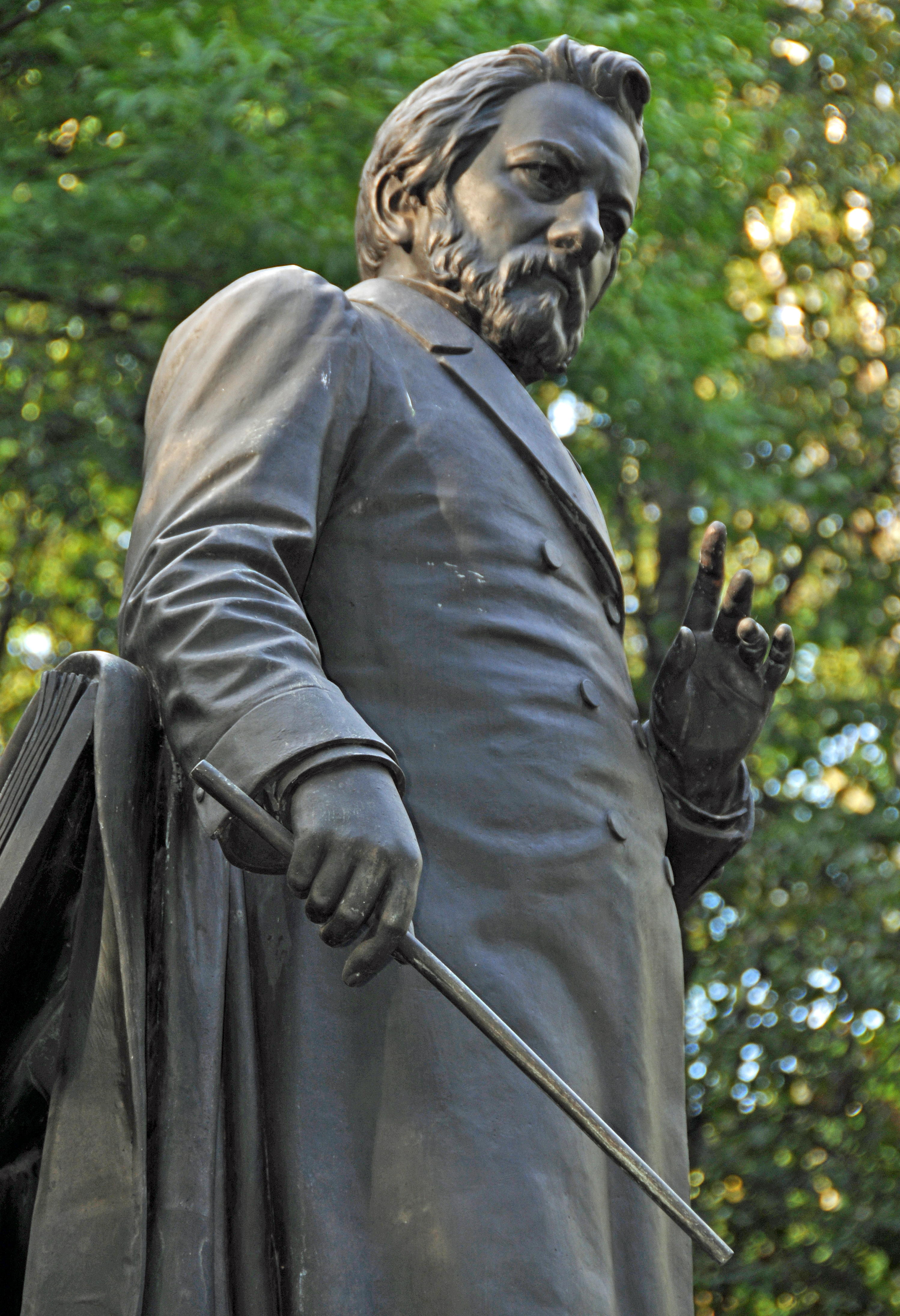 PLEASE, no multi invitations in your comments. Thanks. I AM POSTING MANY DO NOT FEEL YOU HAVE TO COMMENT ON ALL - JUST ENJOY. It really surprised me that when here in Smolensk we went and saw this statue, not that he is not important but this is also the area where Yuri Gagarin was born. He was a Soviet cosmonaut and first human to fly in space and saw nothing related to him. Mikhail Ivanovich Glinka, 1804-1857, was the first Russian composer to gain wide recognition inside his own country, and is often regarded as the father of Russian classical music.